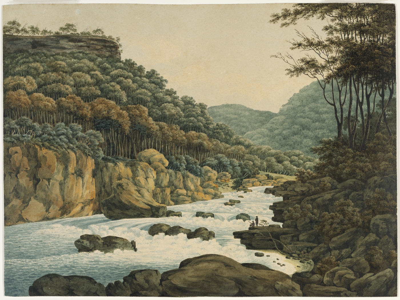 1809 water colour painting of running river in pristine landscape, NSW, Australia